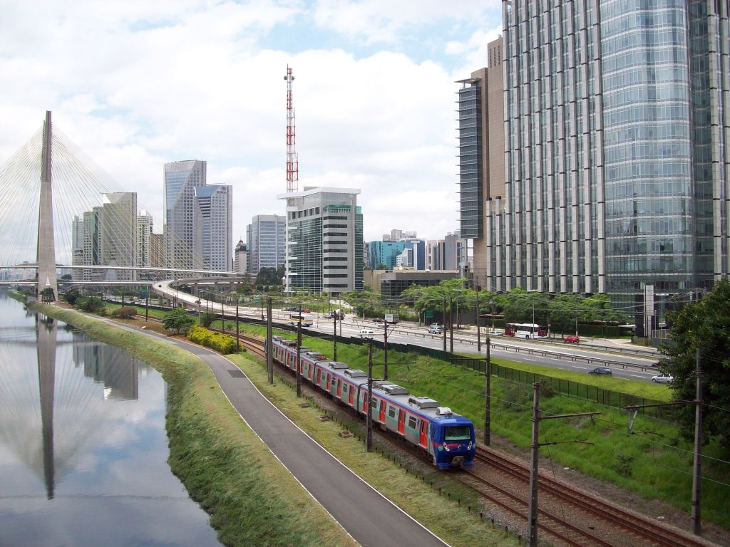 Brooklin, a new financial center of São Paulo City, Brazil.